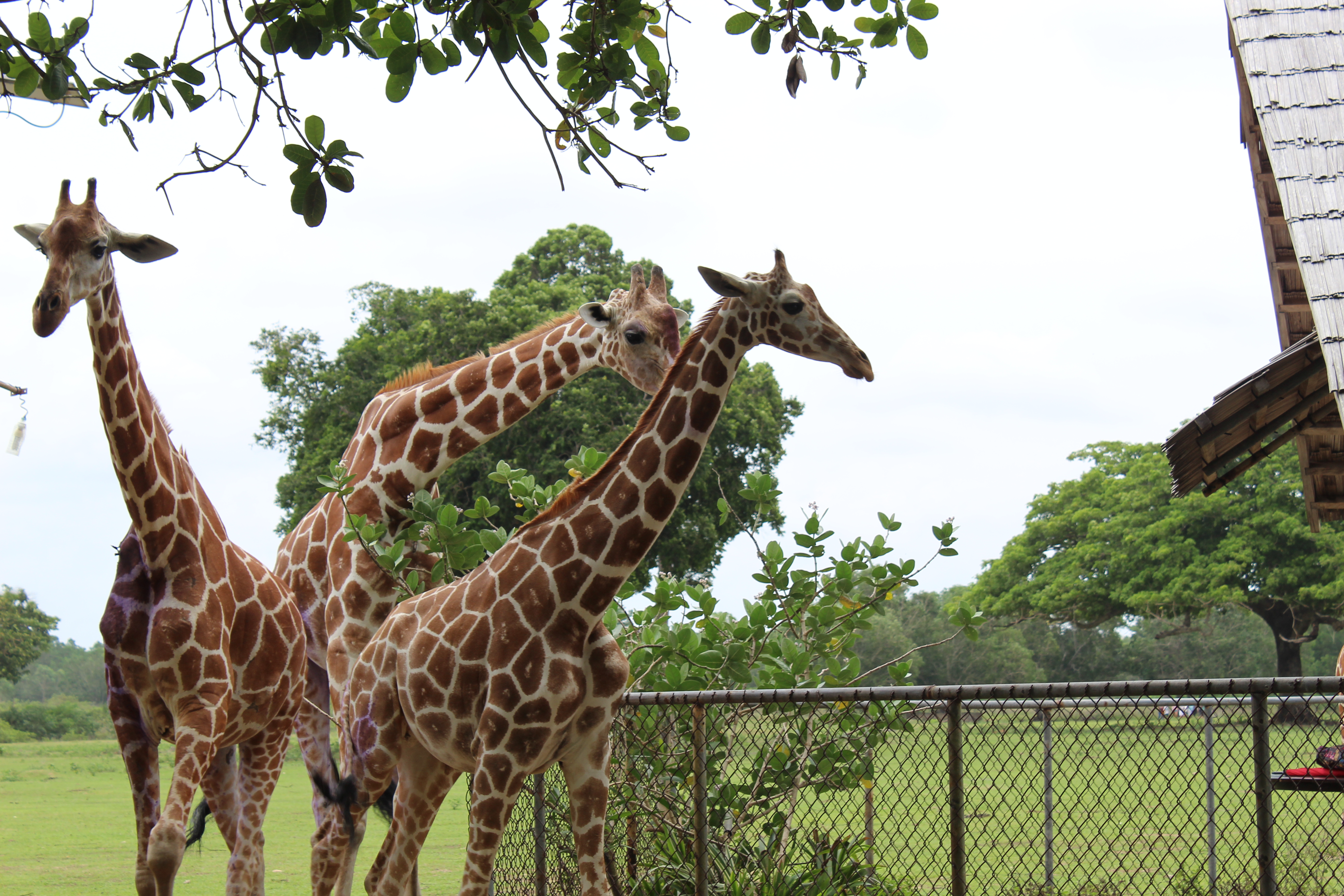 Calauit Safari Park: 12.2778° N, 119.8821° E